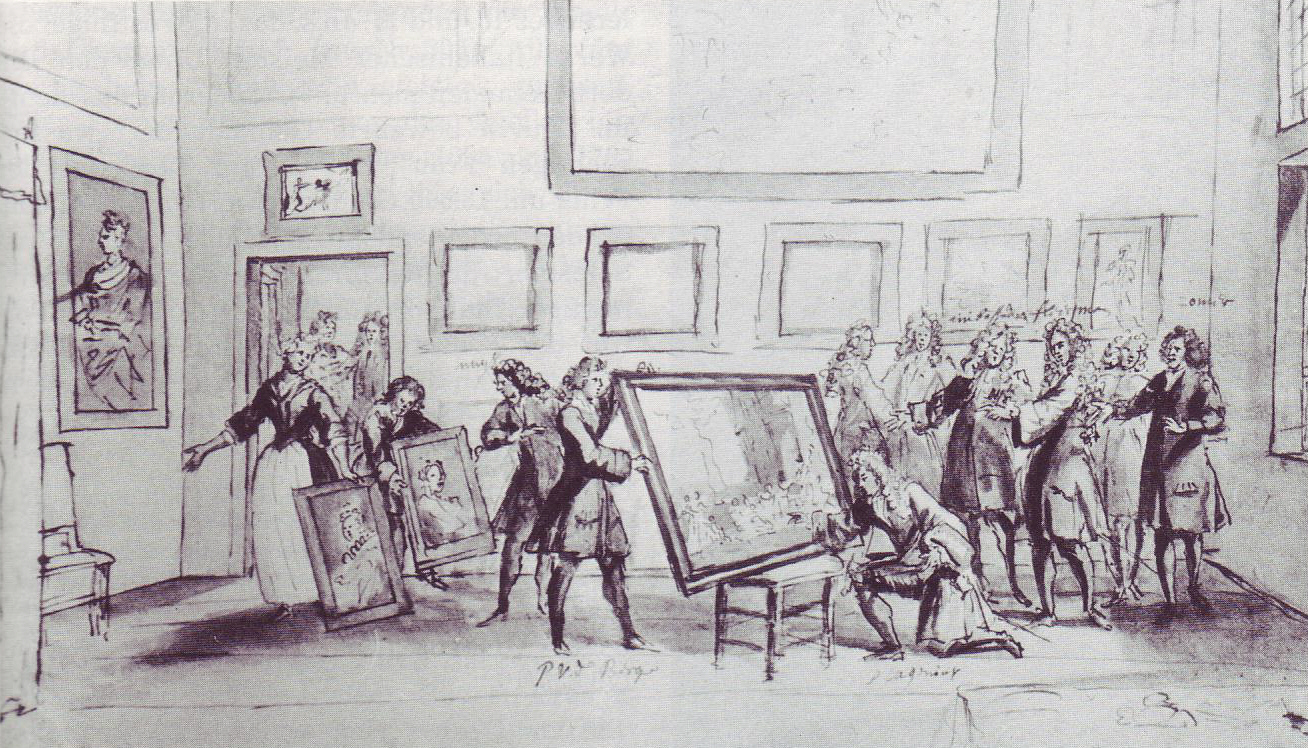 The drawing Prince Eugene of Savoy (1663-1736) visiting the art dealer Somer